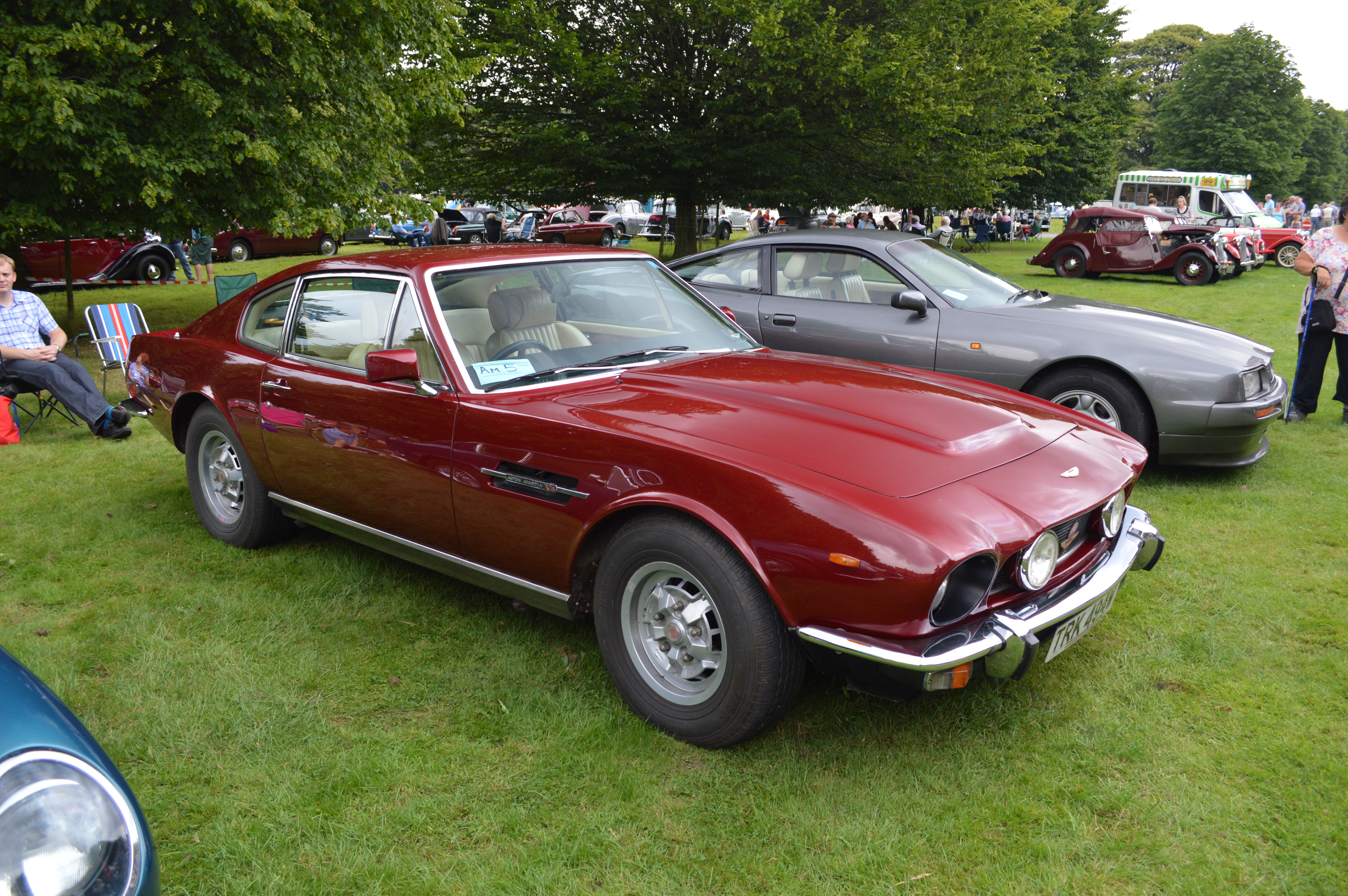 1980 Aston Martin V8 Oscar India at Newby Hall Historic Vehicle Rally, 2014